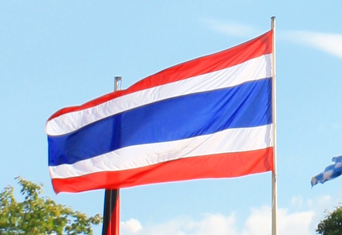 Flag of Thailand